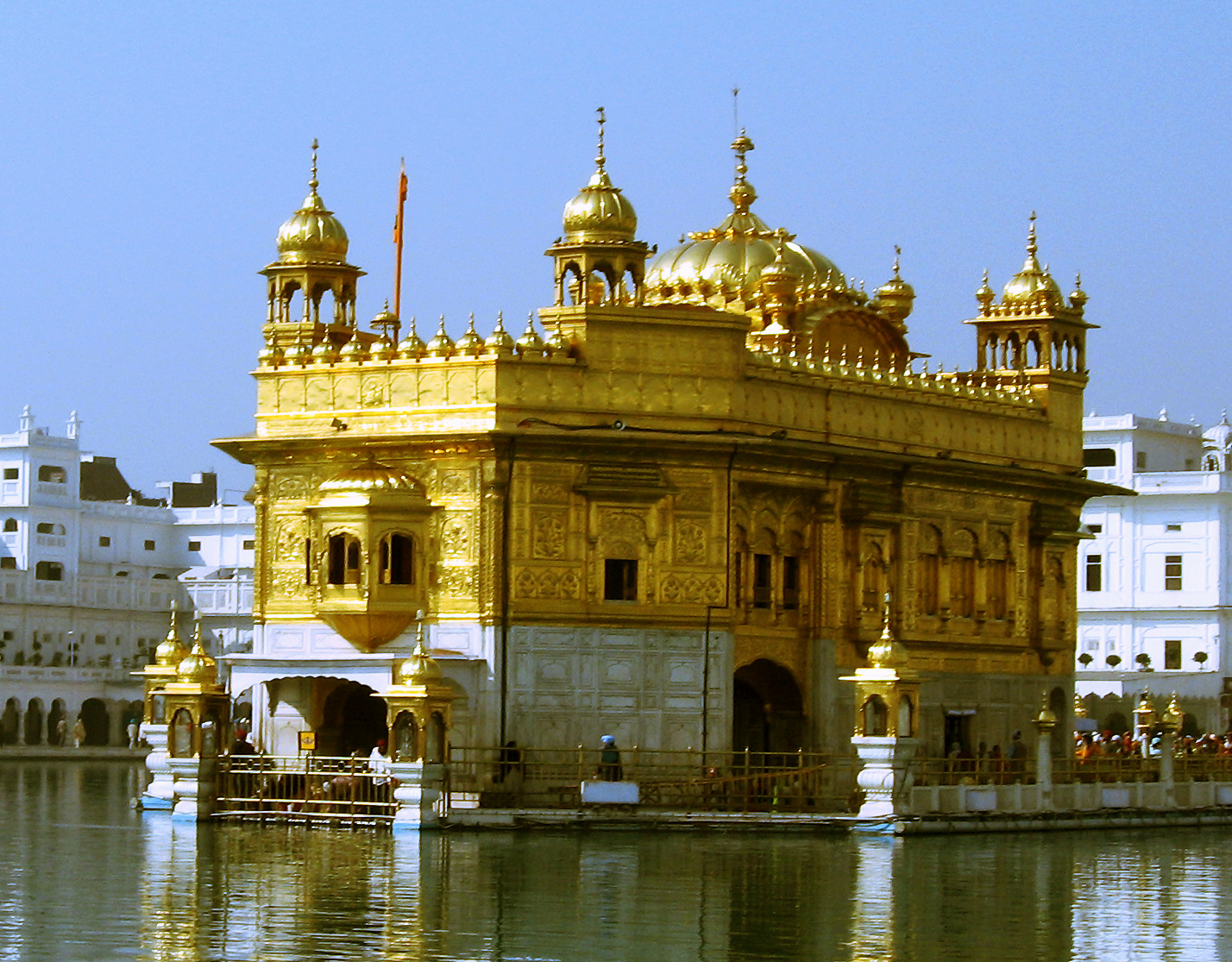 The Harimandir Sahib, commonly known as the Golden Temple